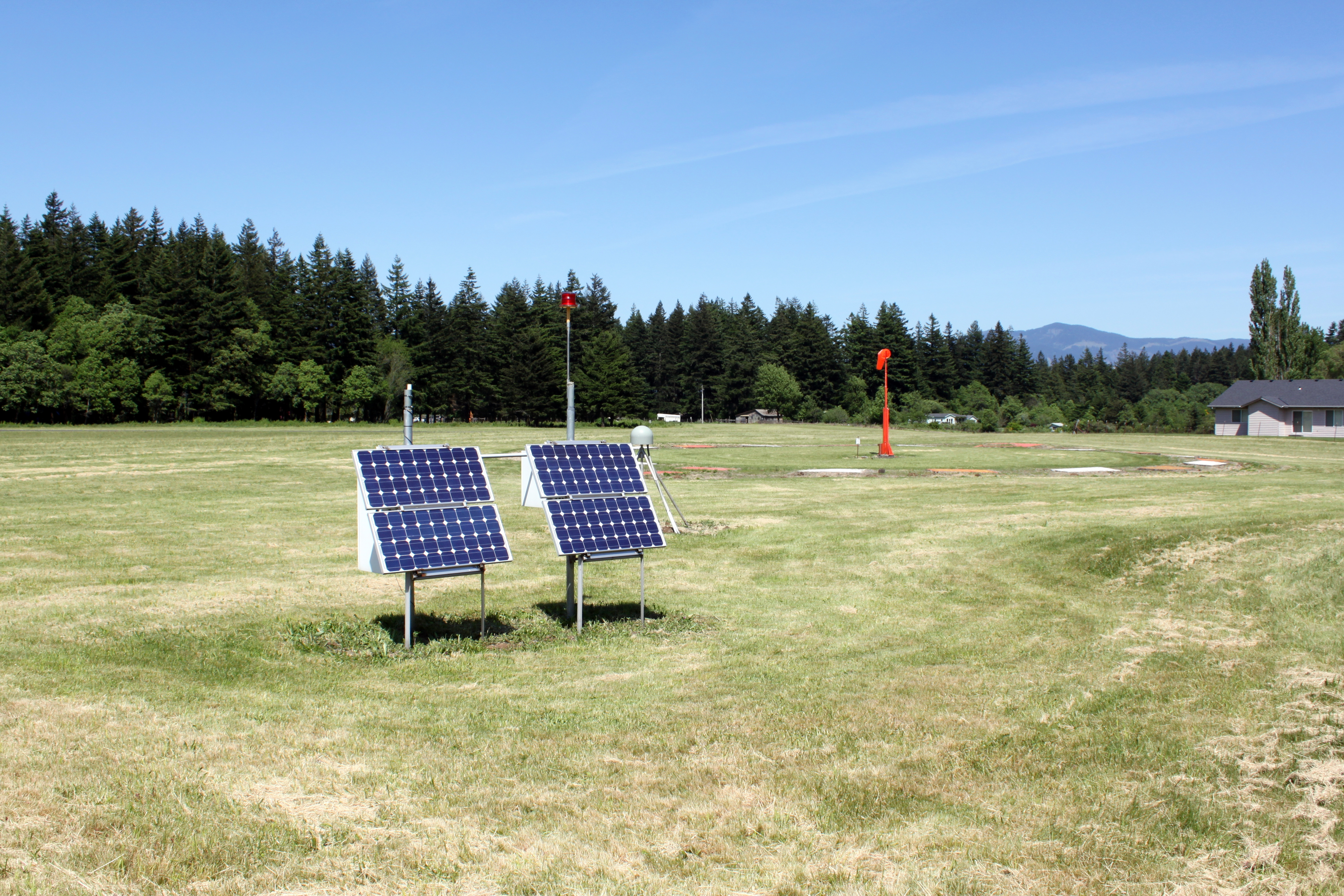 Windsock and solar panel at the Cascade Locks State Airport in Cascade Locks, Oregon.